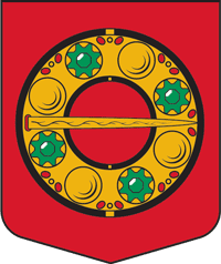 Coat of arms of the former Alsunga parish, Latvia